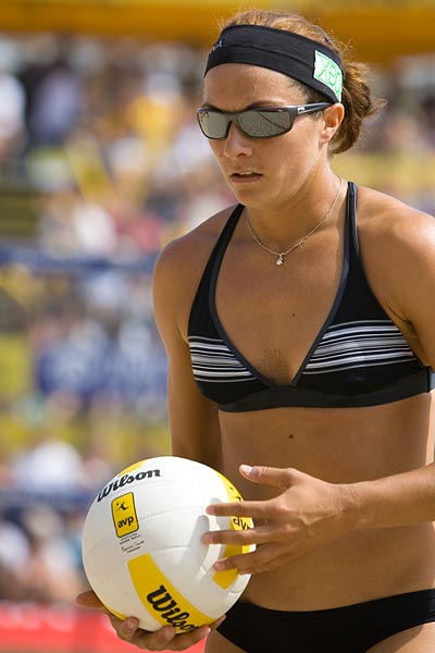 Misty May-Treanor in 2007. Misty May-Treanor prepares to serve during a tournament in 2007.